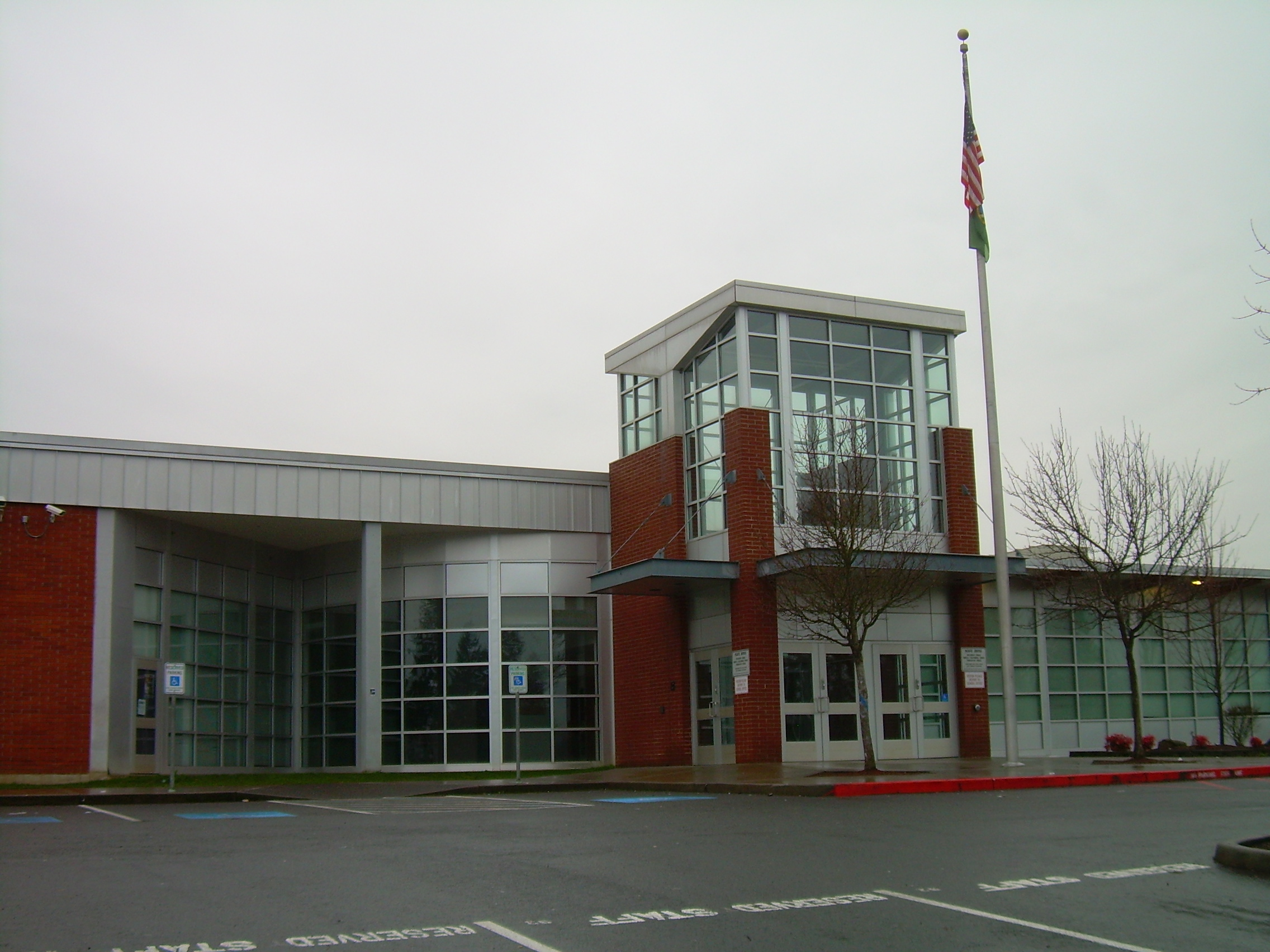 I created this image on 20 December 2006.